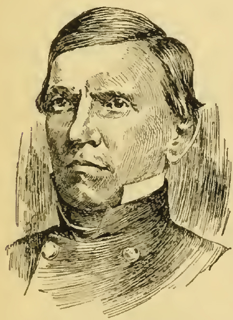 U.S. and Confederate military officer George B. Crittenden